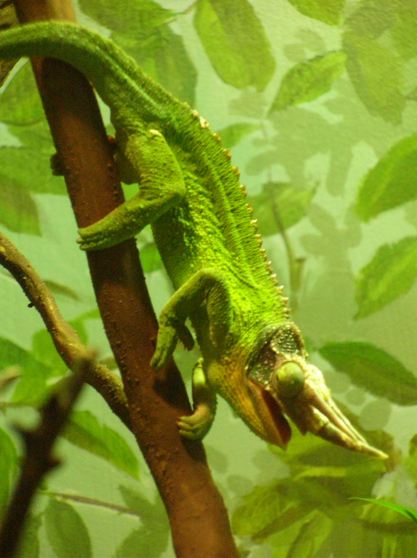 A Jackson's Chameleon (Chamaeleo jacksonii) at the African Hall of the Kimball Natural History Museum at the California Academy of Sciences in San Francisco.